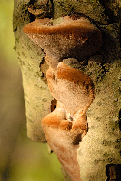 Phellinus pomaceus from Commanster, Belgium. The determination of the species shown in this picture has been verified.